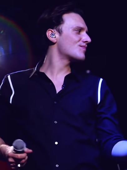 Edis and Fatma Turgut performing "Mey" at Freezone Studio.